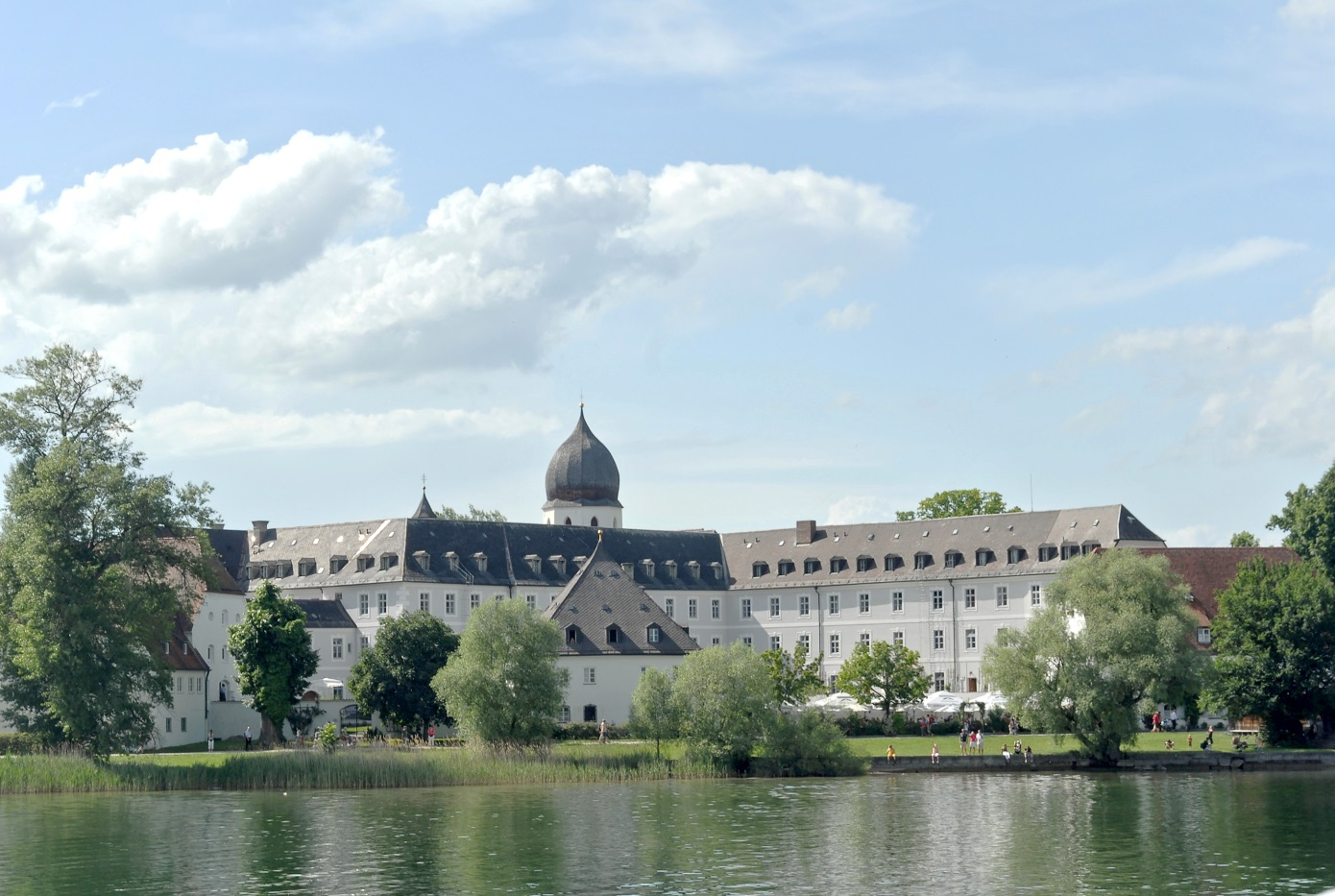 Frauenchiemsee, Monastery